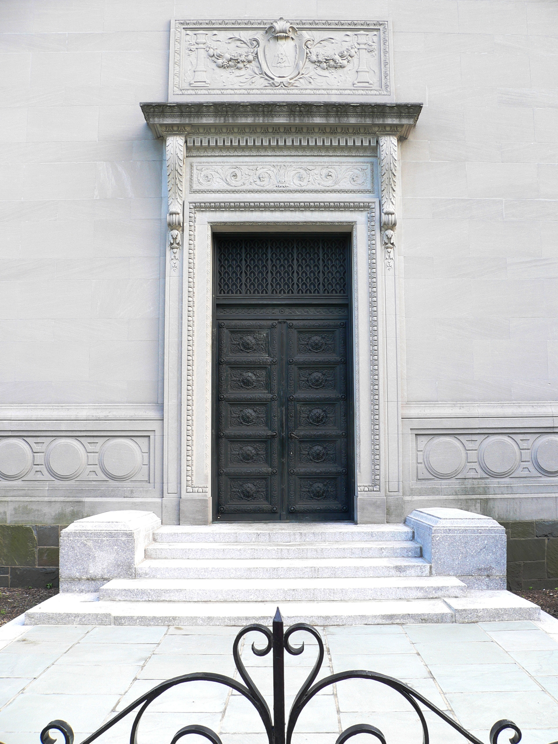 I took this photo in June 2007 of the Yale Berzelius Society building.